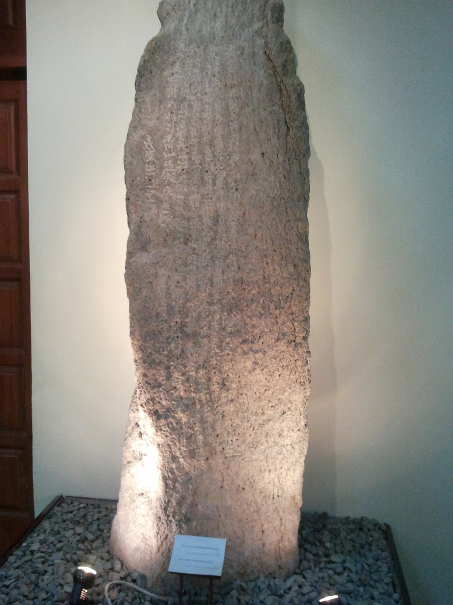 Khitan stele. Called the "Buleenii Ovoonii Kidan Ikh Bichigt Khoshoo" (Bulegen-u Obugan-u Kidan Yeke Bichig-tu Koshuge). Written in Khitan large script. Date 1058 (1st day of the 8th month of the 4th year of Pure Peace or "Qingning" - 1st reign era of Emperor Daozong of Liao/Yelu Hongji). Discovered August 2010 in Erdene sum of Dornogovi Province, south-eastern Mongolia. Joint Japanese-Mongolian effort. 7 lines 150 characters. Kept in National Museum of Mongolia in Ulaanbaatar, Mongolia. 8 letter Chinese equivalent of the first 9 letters of the 1st line (宁 is two letters in Khitan large script)